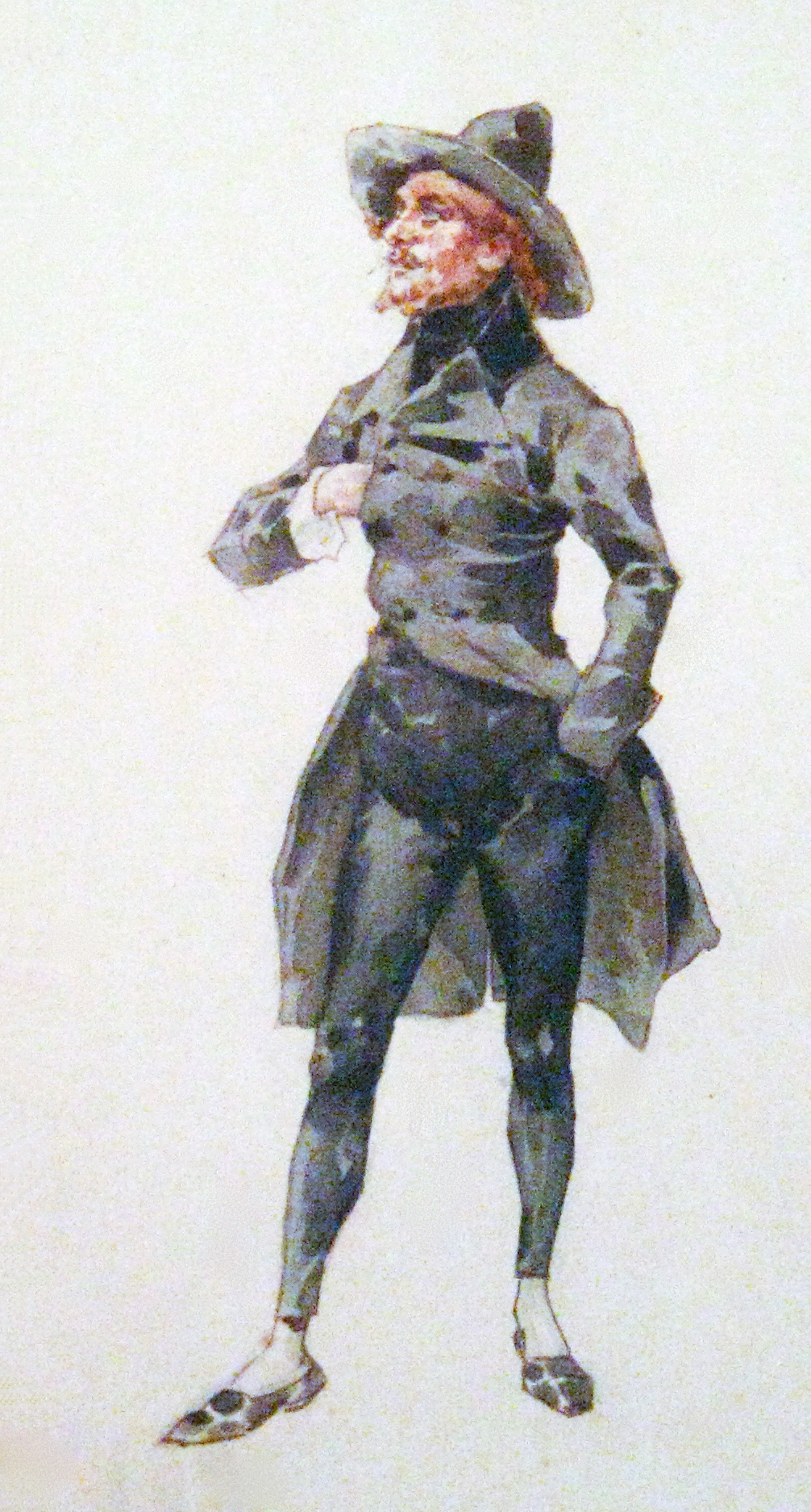 La bohème. Rodolfo. Costume design realized on commission of Ricordi & c. by Adolfo Hohenstein for the premiere at the Teatro Regio, February 1, 1896, Turin